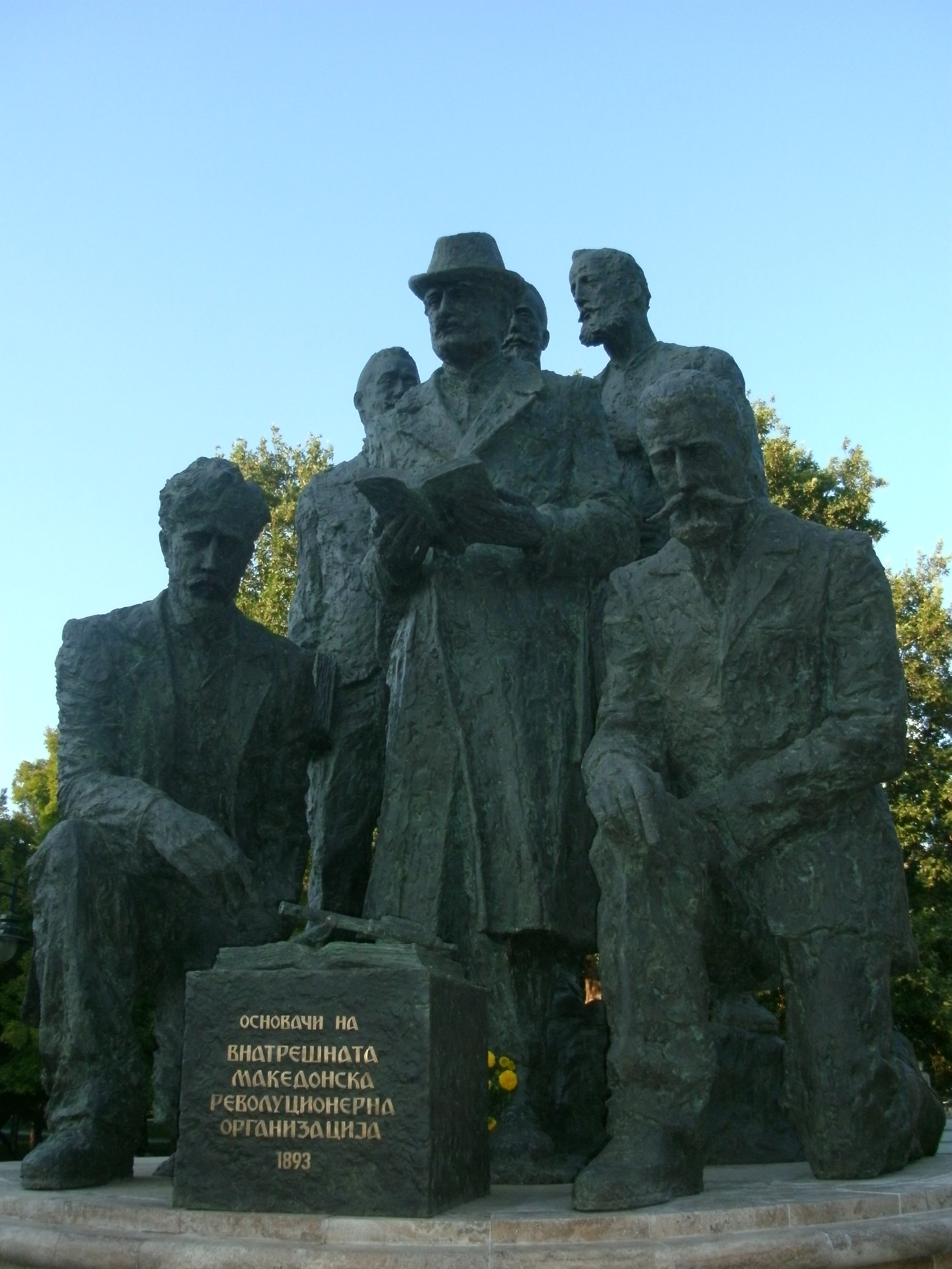 Monument of founders of IMRO in Skopje, Macedonia